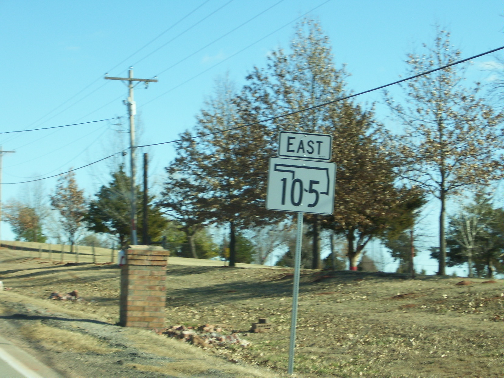 Eastbound assurance shield at the beginning of State Highway 105 west of Guthrie, Oklahoma.